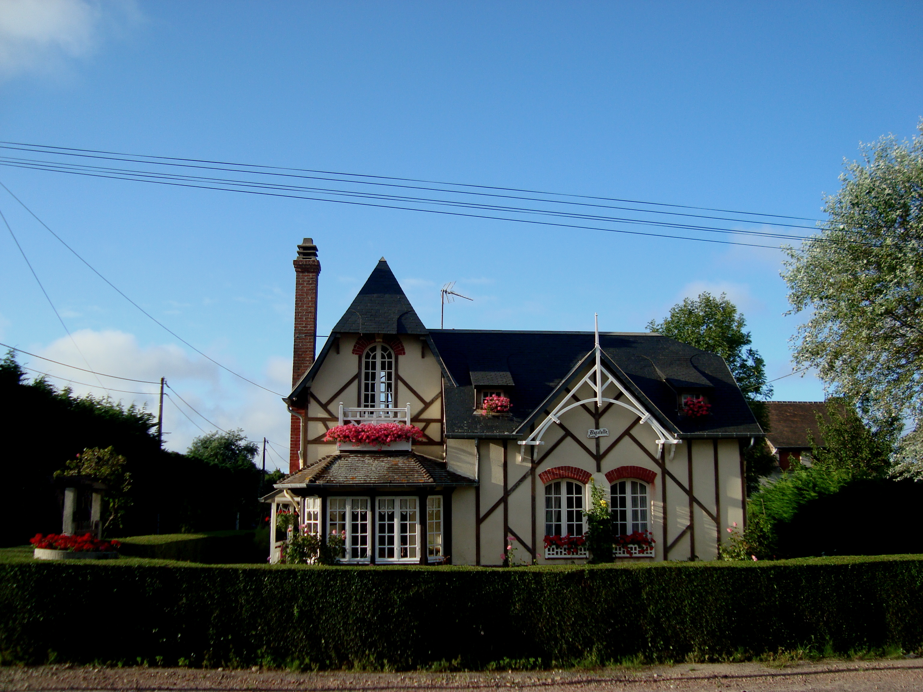 One of the only surviving pre-invasion houses, Rue Robert Riethe, lower town, Ver-sur-Mer, Normandy, France.